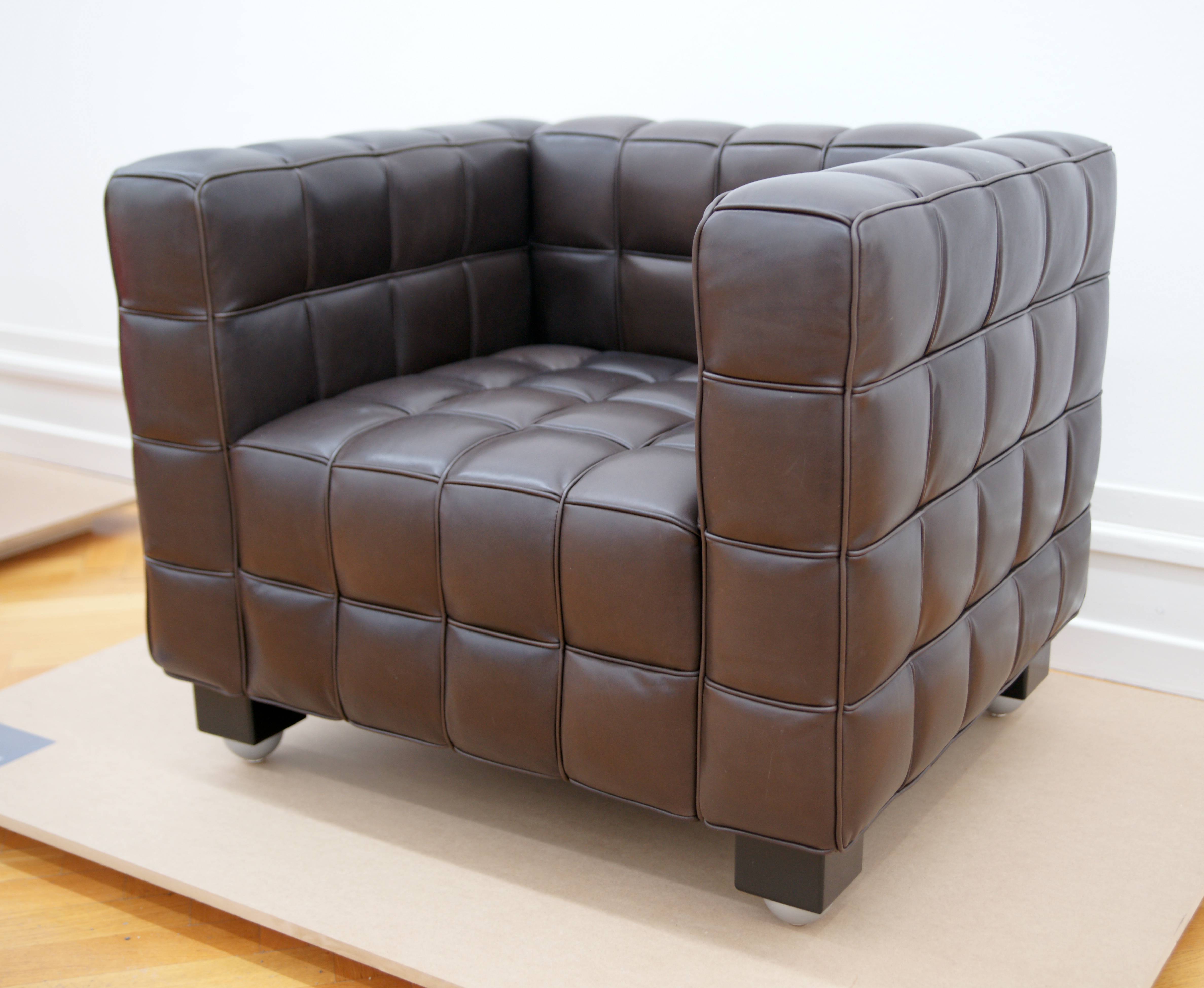 Kubus armchair produced by Wittmann, 2010